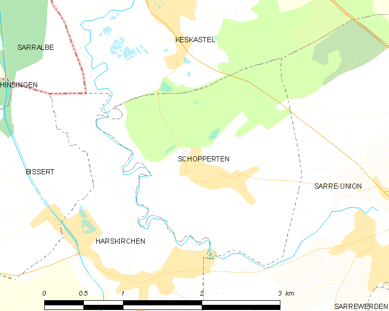 Map of French municipality